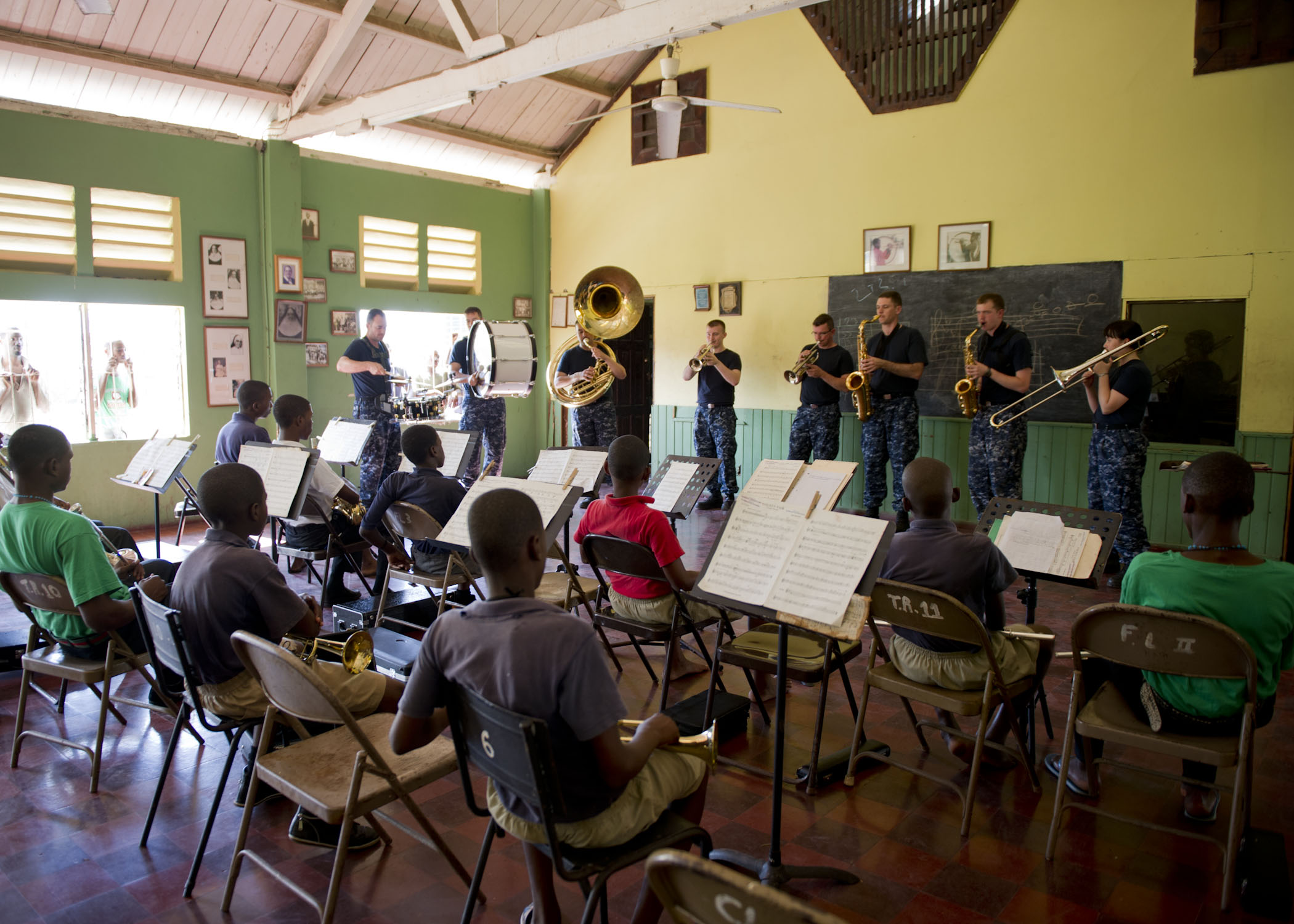 KINGSTON, Jamaica (April 20, 2011) The U.S. Fleet Forces Band plays a song for the Alpha Boys School concert band during a Continuing Promise 2011 subject matter expert exchange at the Alpha Boys School. Continuing Promise is a five-month humanitarian assistance mission to the Caribbean, Central and South America. (U.S. Navy photo by Mass Communication Specialist 2nd Class Jonathen E. Davis/Released)